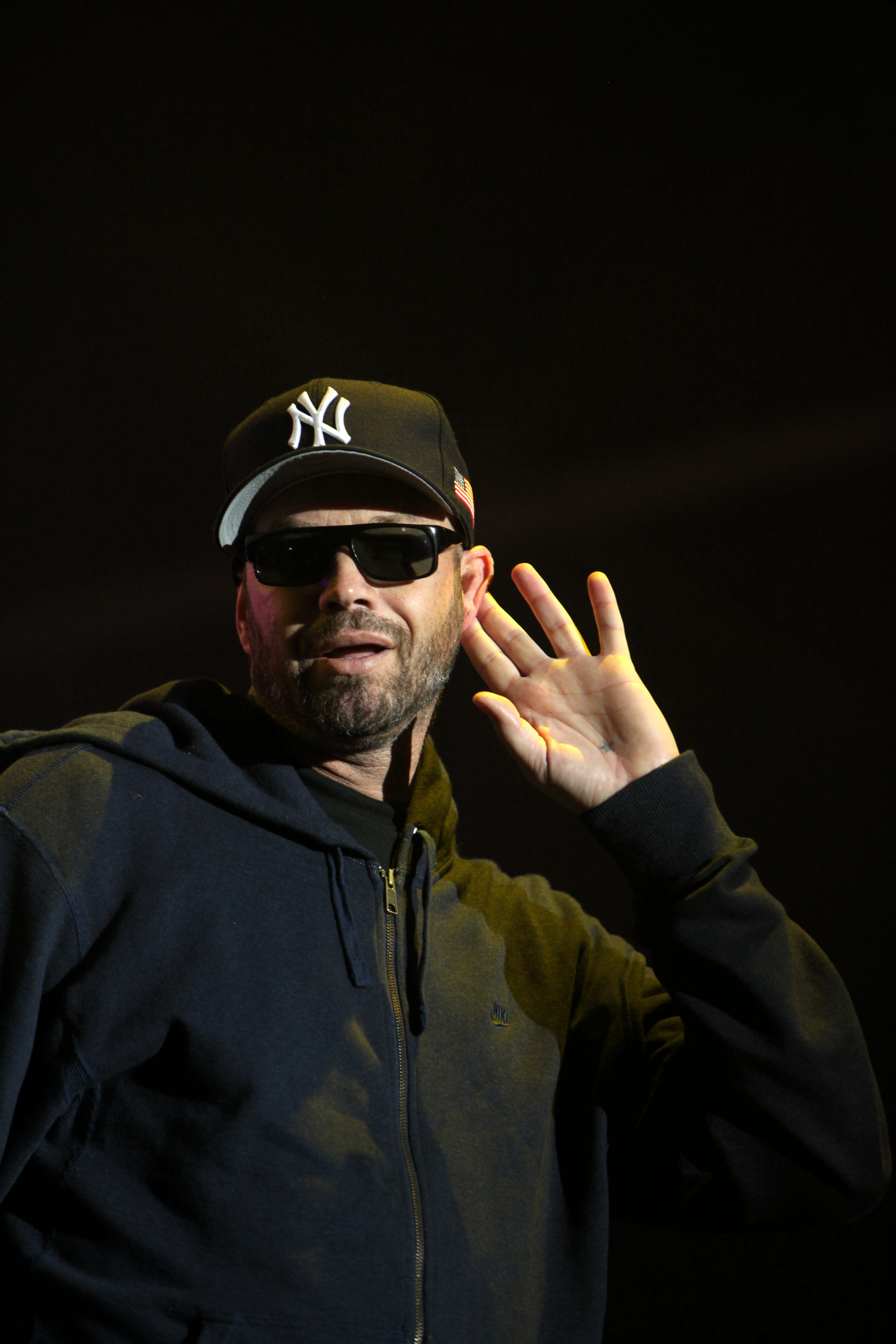 House of Pain at the Eurockéennes de Belfort 2011 The making of this document was supported by Wikimedia CH. (Submit your project!) For all the files concerned, please see the category Supported by Wikimedia CH.